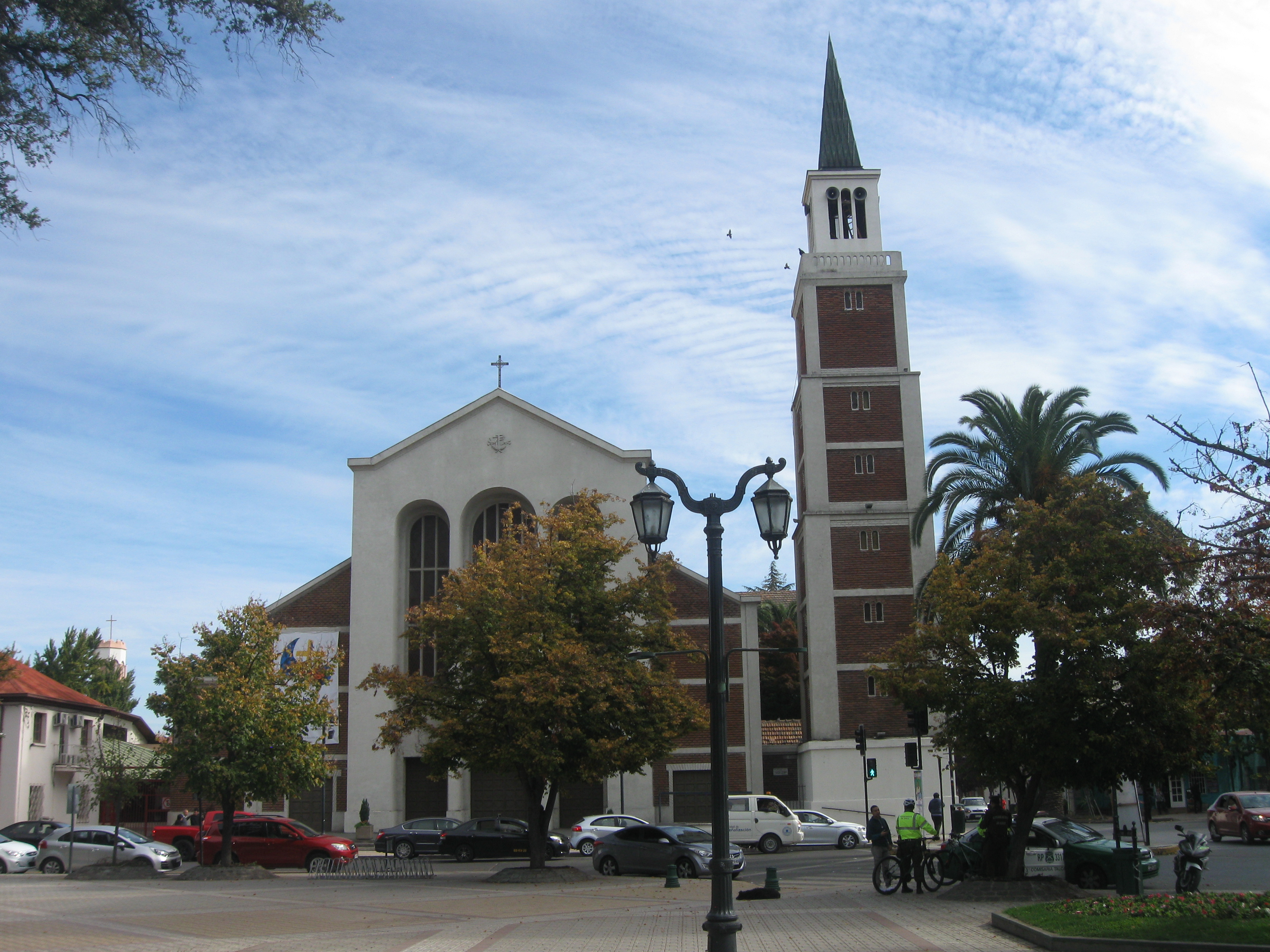 Cathedral San Agustín in Talca